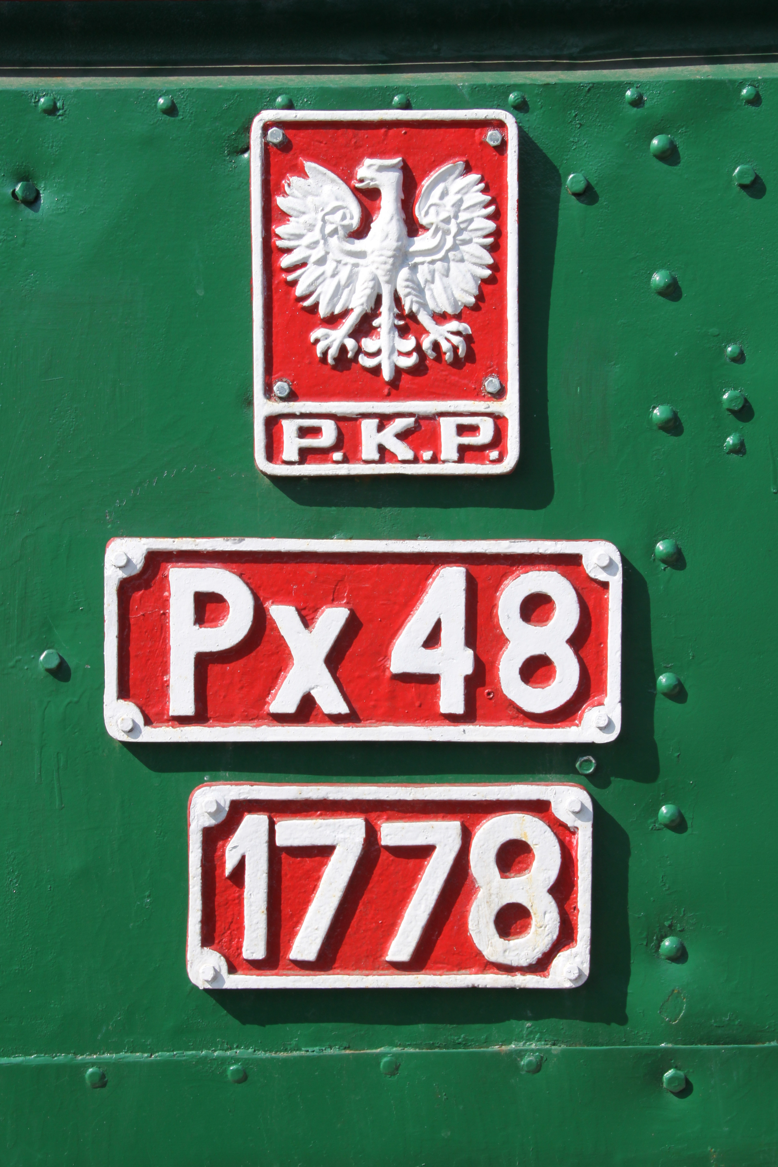 Plates on locomotive Px48-1778, Marki, Poland.